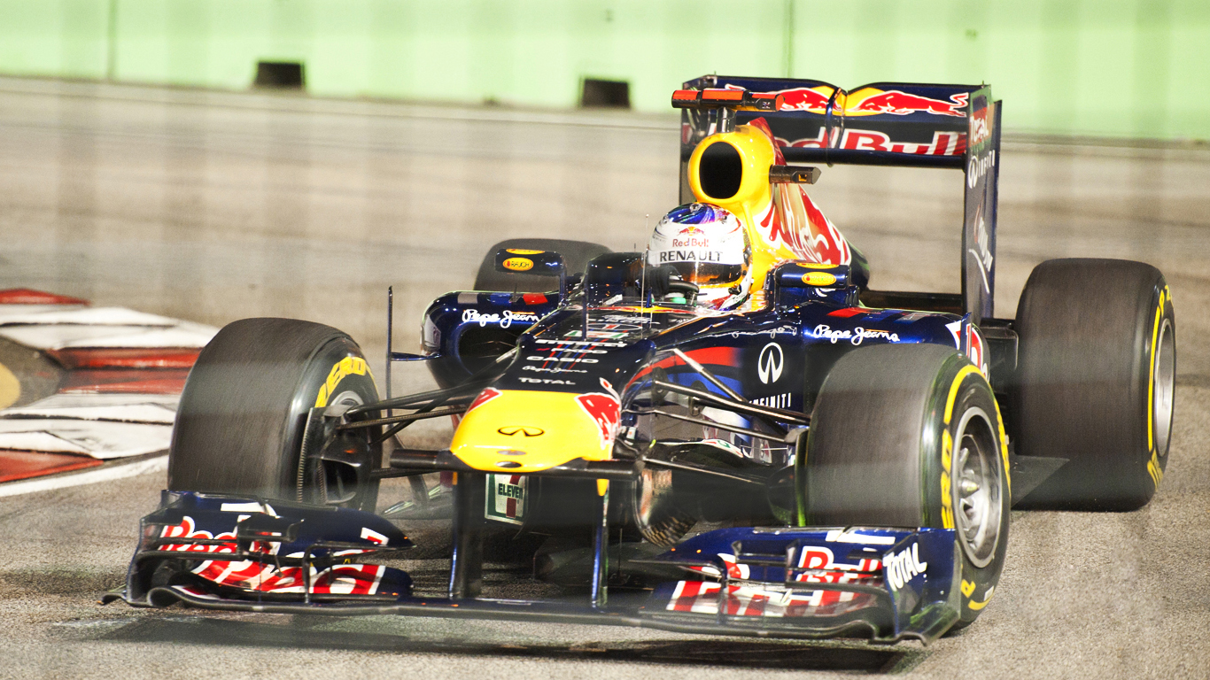 RENAULT TEAM Photography By : Dhonsky